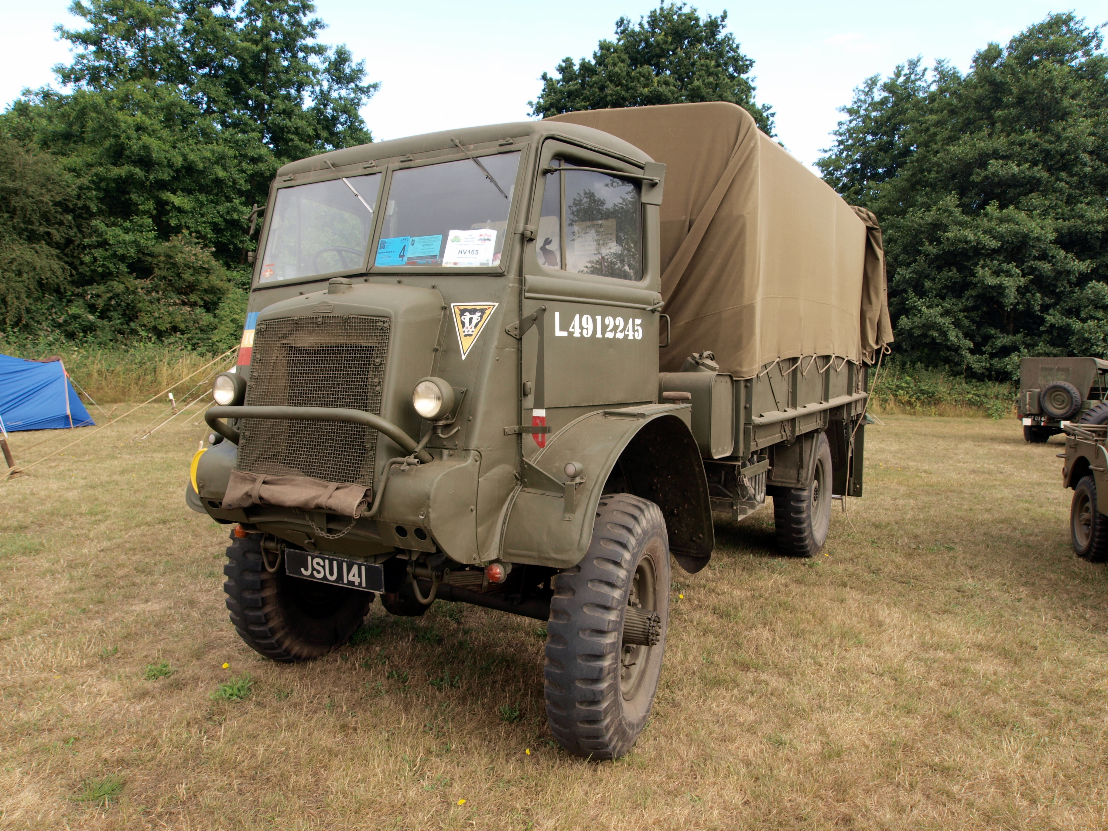 Bedford QL truck L4912245